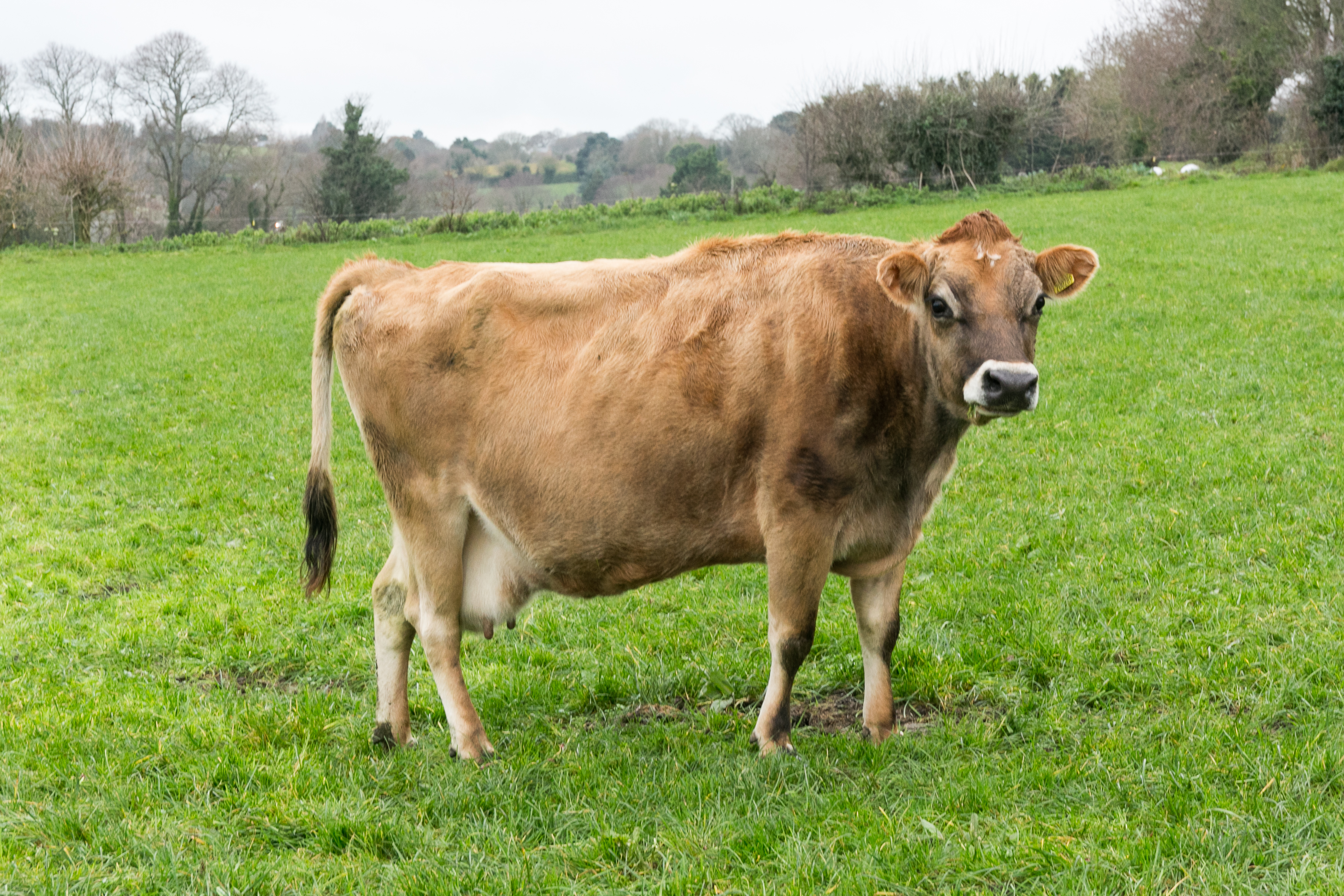 Jersey cow in Grouville.